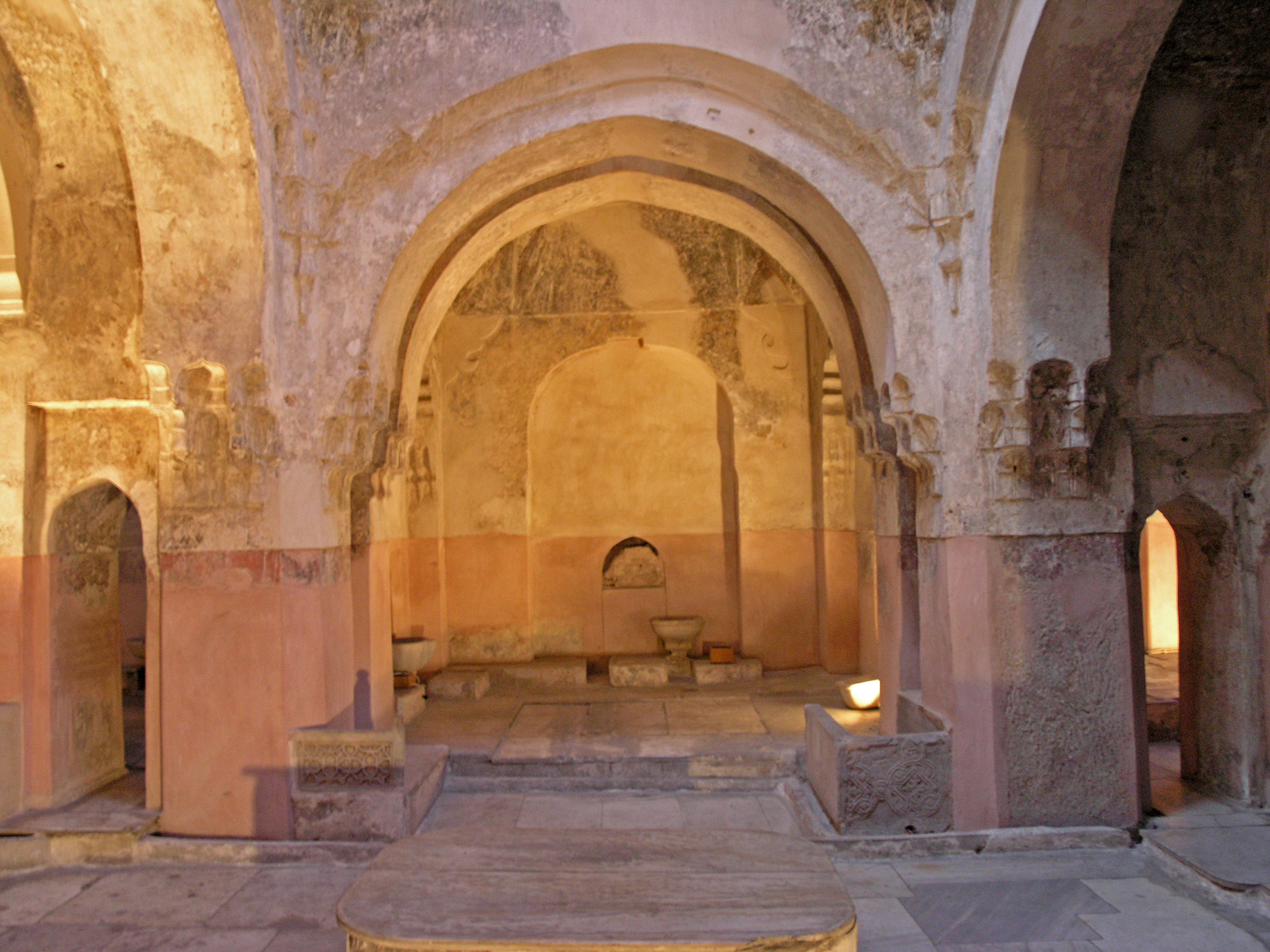 Hot chamber of the men baths in the Bey Hamam in Thessaloniki (1444). Photograph taken by Marsyas 17:32, 26 February 2006 (UTC)